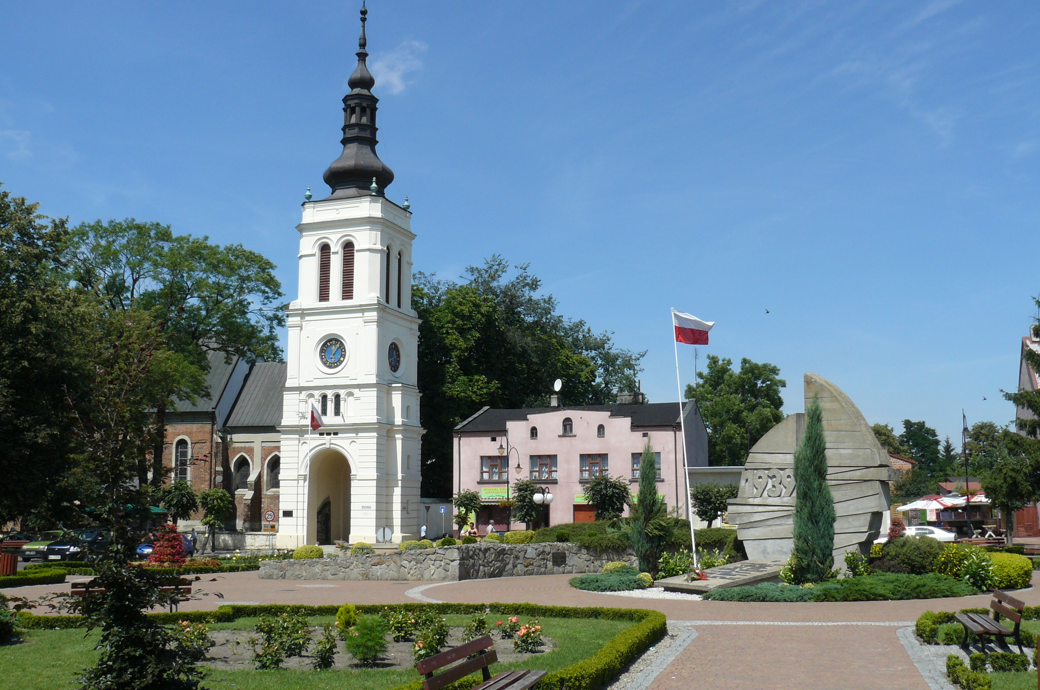 Uniejow - Square.